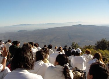 Recibimiento de Equinoccio en el Cerro Culiacán, Jaral del Progreso.